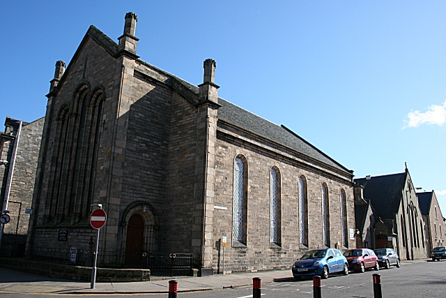 High Kirk This is one of the few Elgin kirks still in use as such. I am not sure why it is called the High Kirk, because it started out as a Free Kirk soon after the Disruption in 1843, and is now a Church of Scotland. The architect was Thomas Mackenzie.